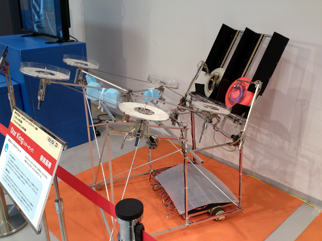 Robocon '94 College of Technology Category: Nara-NCT "StarKing"